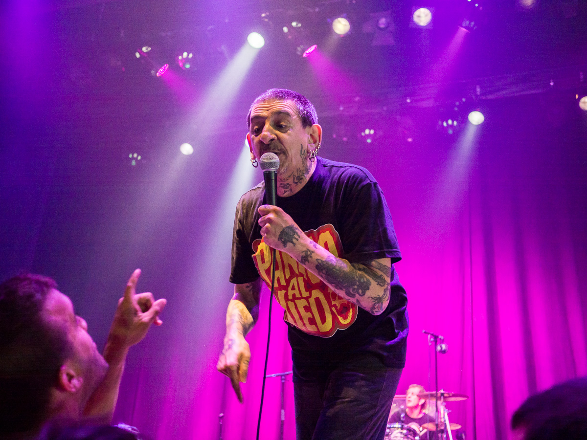 Los Gatillazo en Zaragoza el 20 de mayo de 2016 en el Teatro de las Esquinas .es/2016/05/gatillazo-teatro-de-las-esqu...